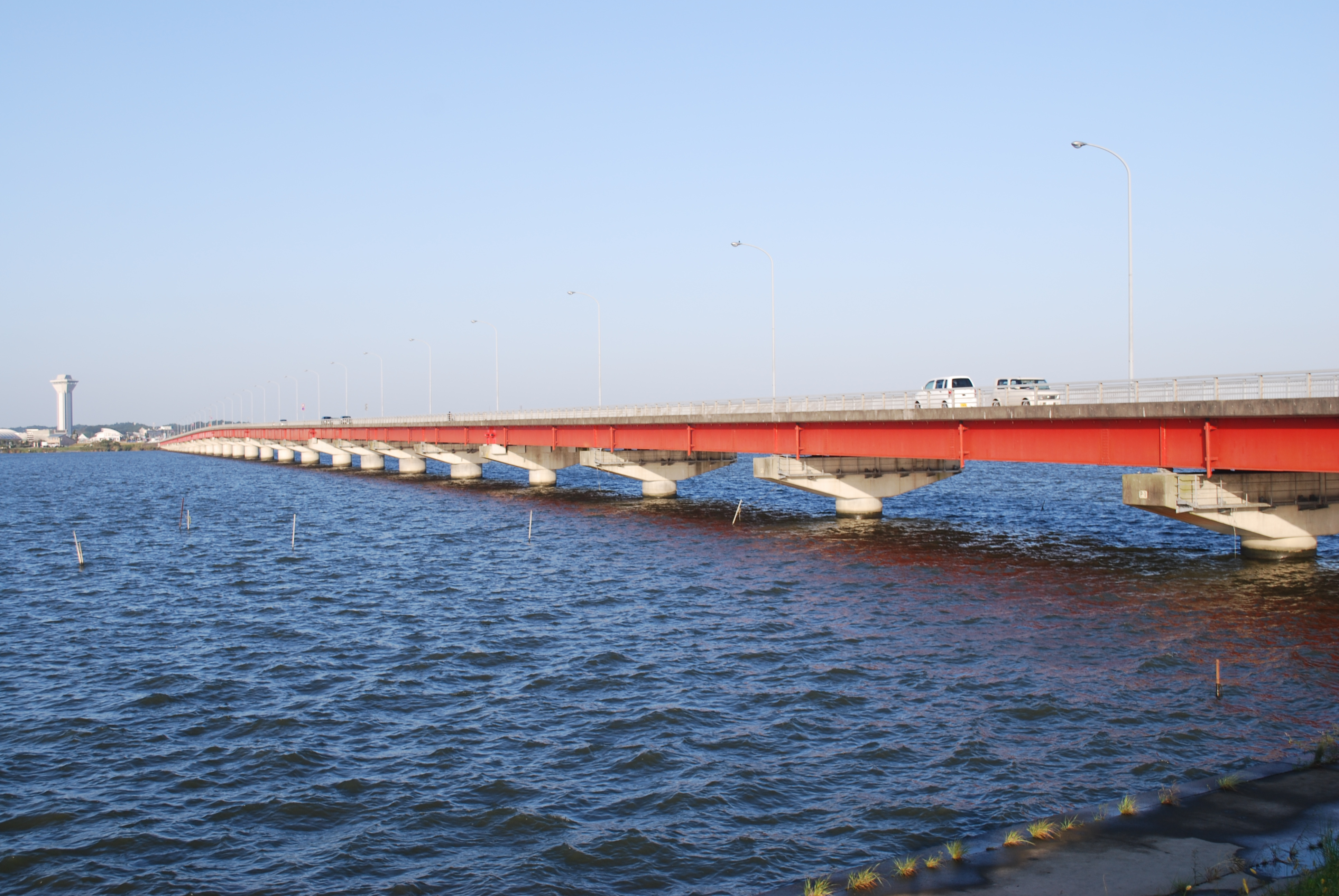 Kasumigaura Bridge,Namegata-city,Kasumigaura-city,Japan